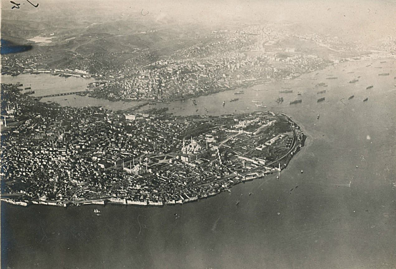 Aerial photo of Istanbul taken from a German zeppelin on 19 March 1918.